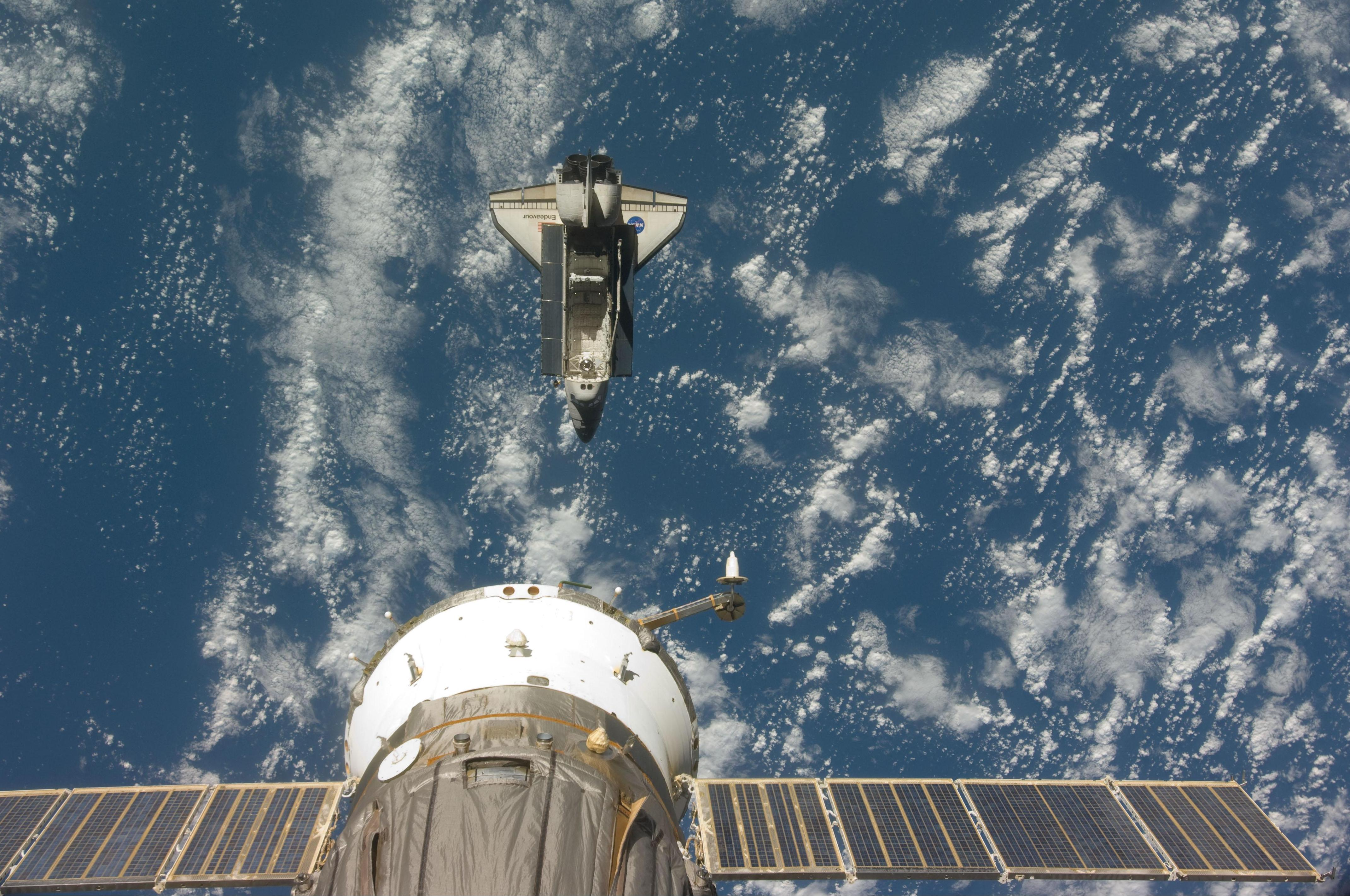 Backdropped by a blue and white Earth, this image shows Endeavour shortly after the shuttle and station began their post-undocking separation.